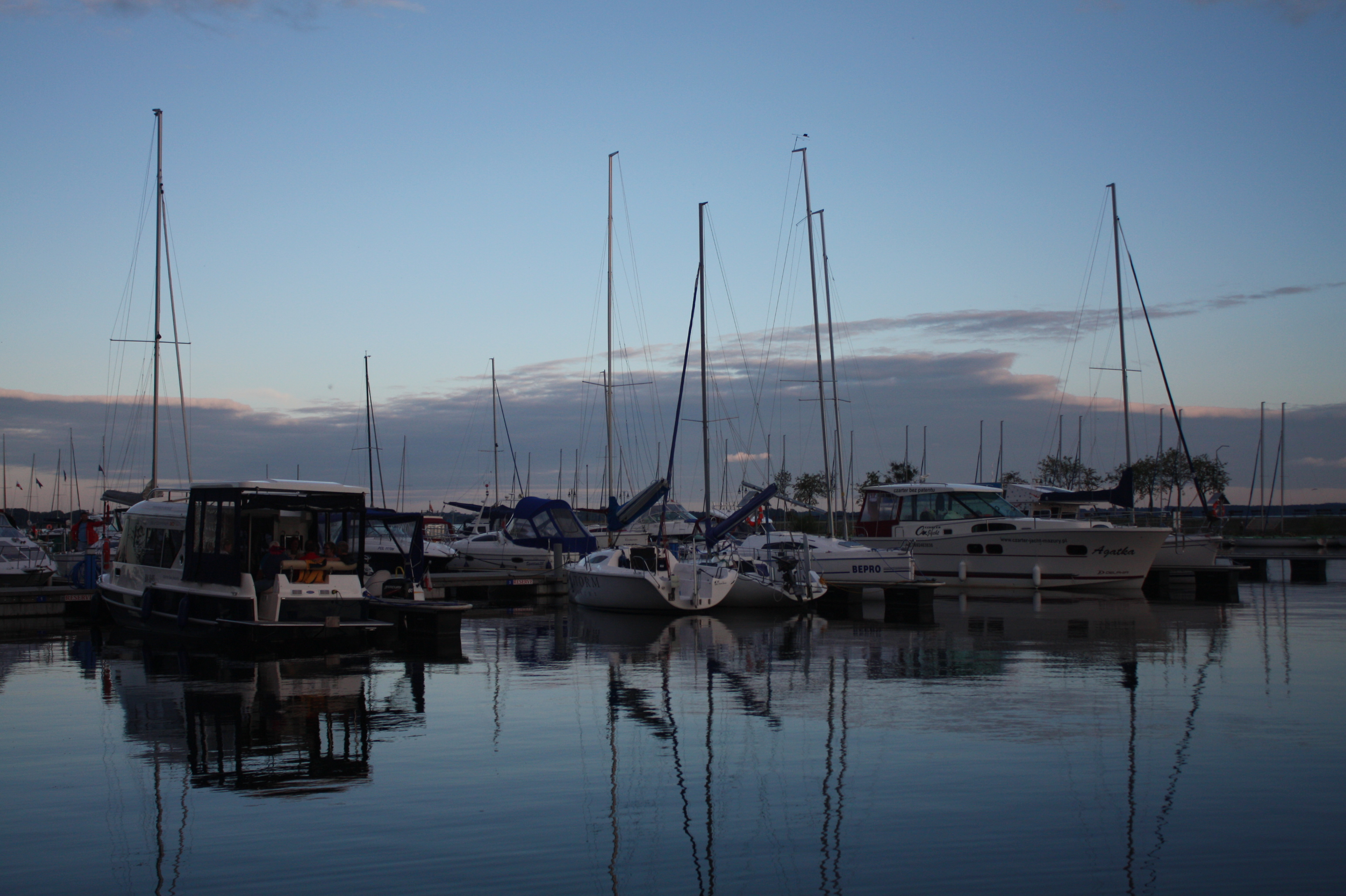 This photo of Warmian-Masurian Voivodeship was taken during Wikiexpedition 2012 set up by Wikimedia Polska Association. You can see all photographs in category Wikiekspedycja 2012. The making of this document was supported by Wikimedia Polska.